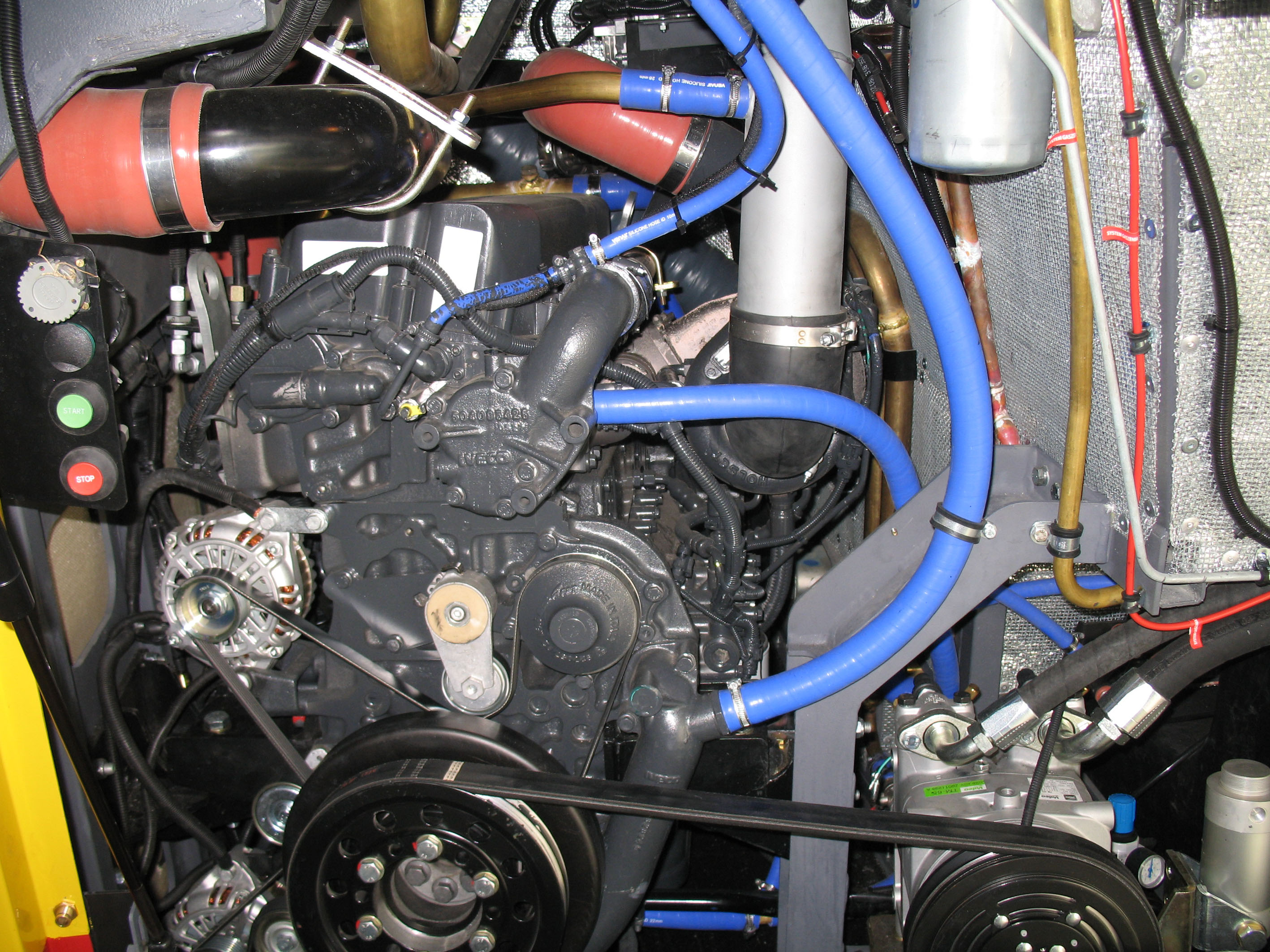 Autosan Sancity 18 LF city bus engine (Iveco Cursor 78 EEV) in Kielce, Poland. Built 2010. Transexpo 2010.